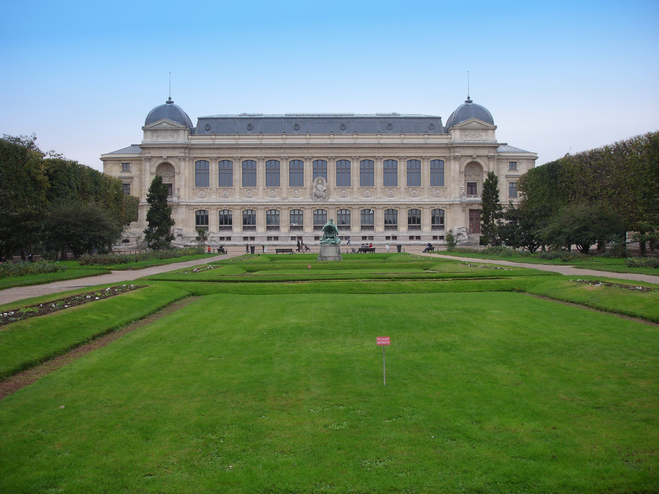 Façade of the grande galerie de l'Évolution (Gallery of Evolution), which is a zoology museum building belonging to the French National Museum of Natural History. The building is located in the Jardin des plantes in Paris.